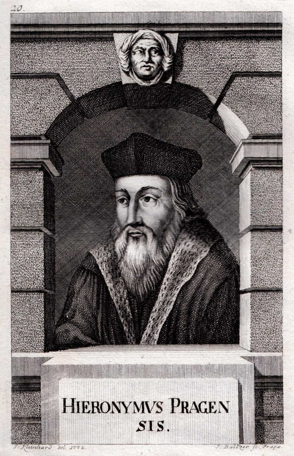 Jerome of Prague (1365—1416)